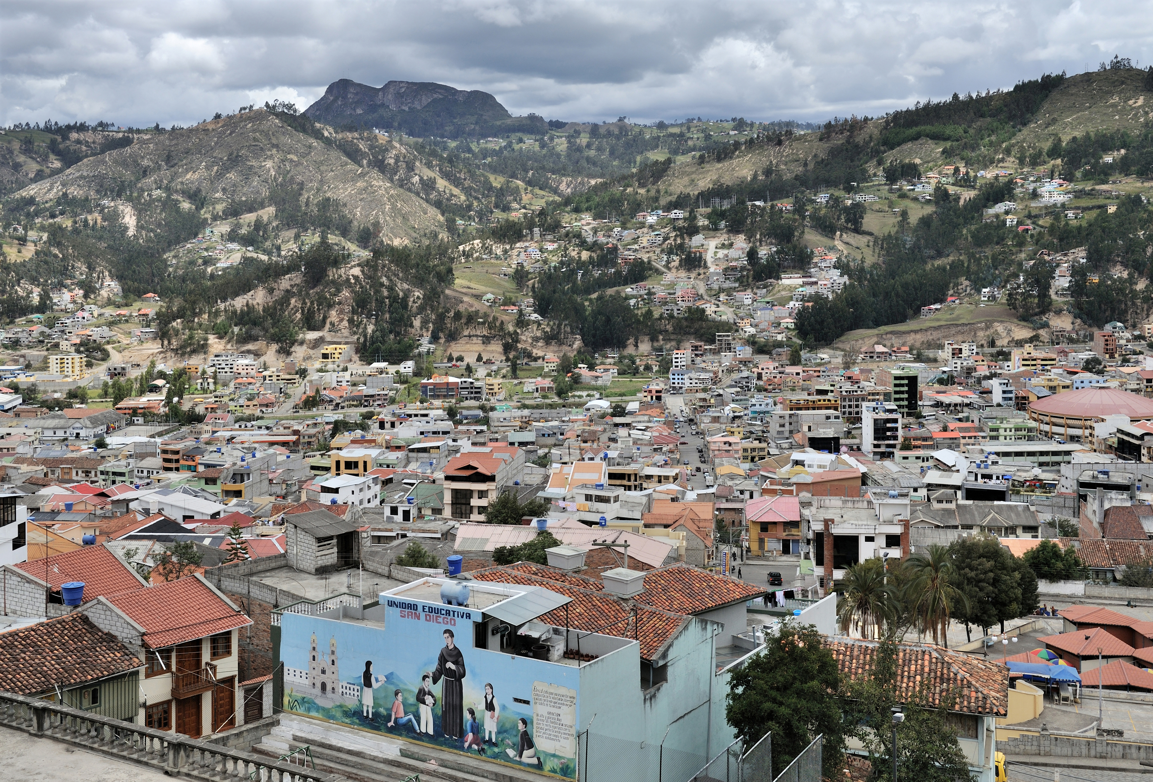 Azogues, Ecuador, as seen from the platform just below Iglesia San Francisco.